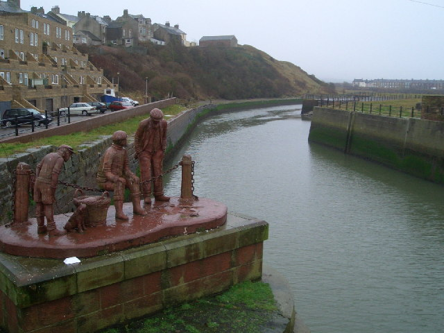 Mouth of the River Ellen. A sculpture by Colin Telfer, whose workshop is in Maryport, commemorating the town's history of mining.